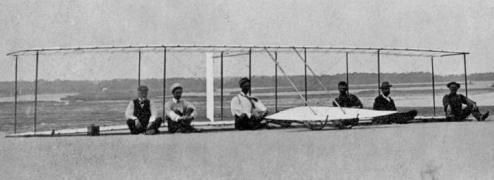 The Wright brothers with friends and helpers. From left to right: Octave Chanute, Orville and Wilbur Wright, A. M. Herring, George Spratt, and Dan Tate. In the background, the 1902 Wright Glider. Photo taken by Wilbur and Orville's older brother Lorin in Kitty Hawk, North Carolina, on 10 October 1902.